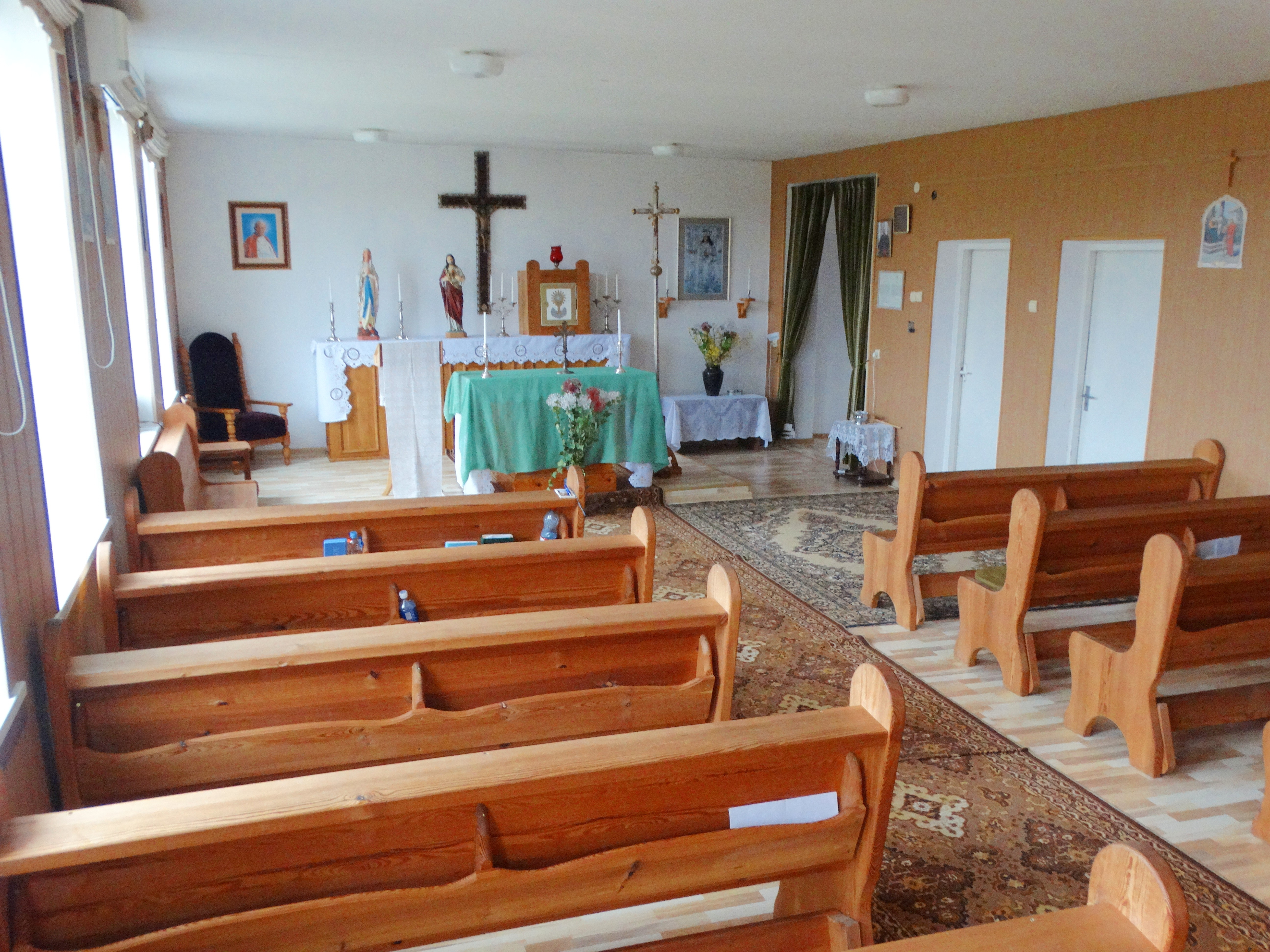 Chapel of St. Casimir, Baubliai, Kretinga District, Lithuania